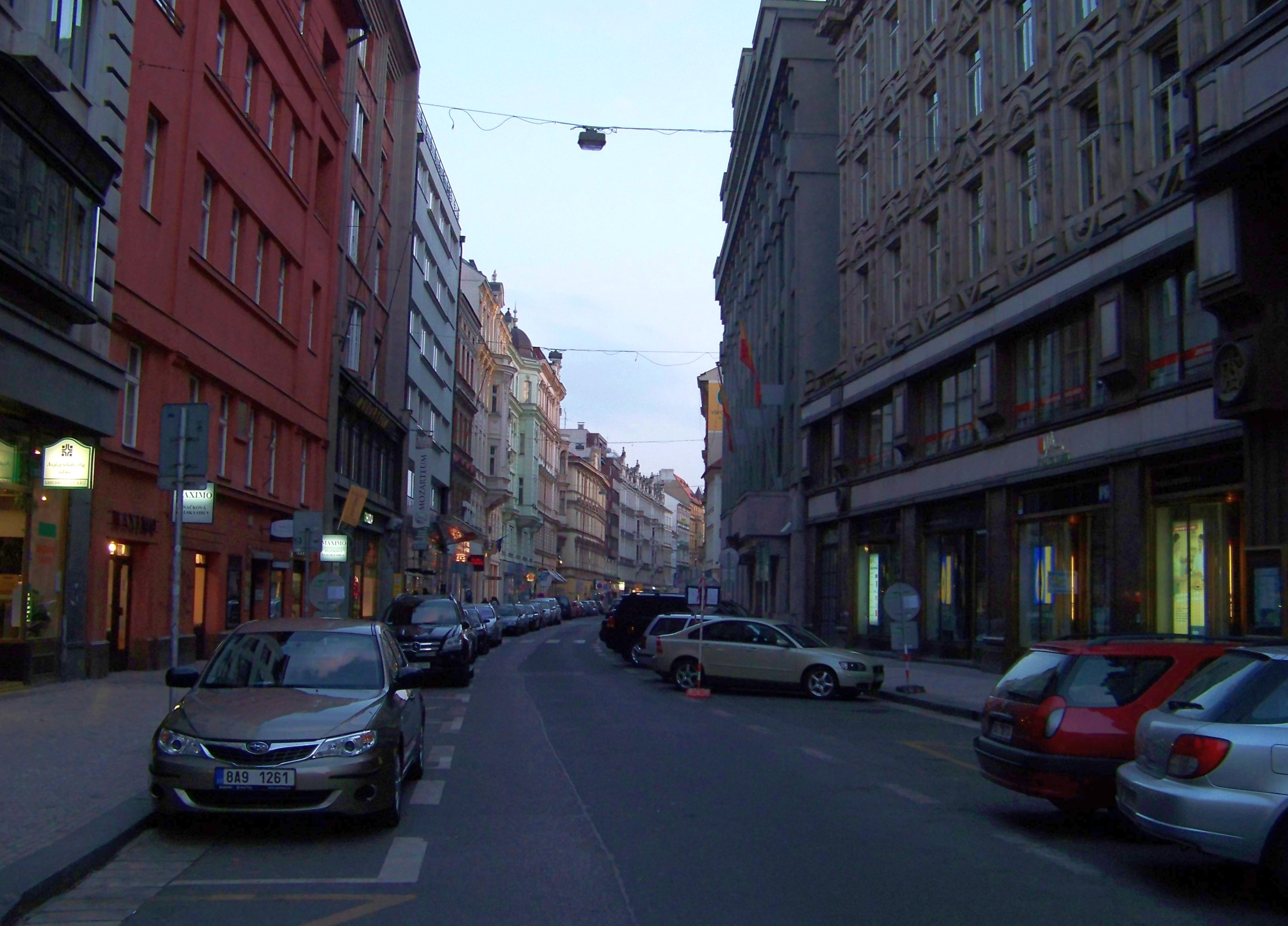 Prague-New Town, the Czech Republic. Jungmannova street. - OpenStreetMap (Info)